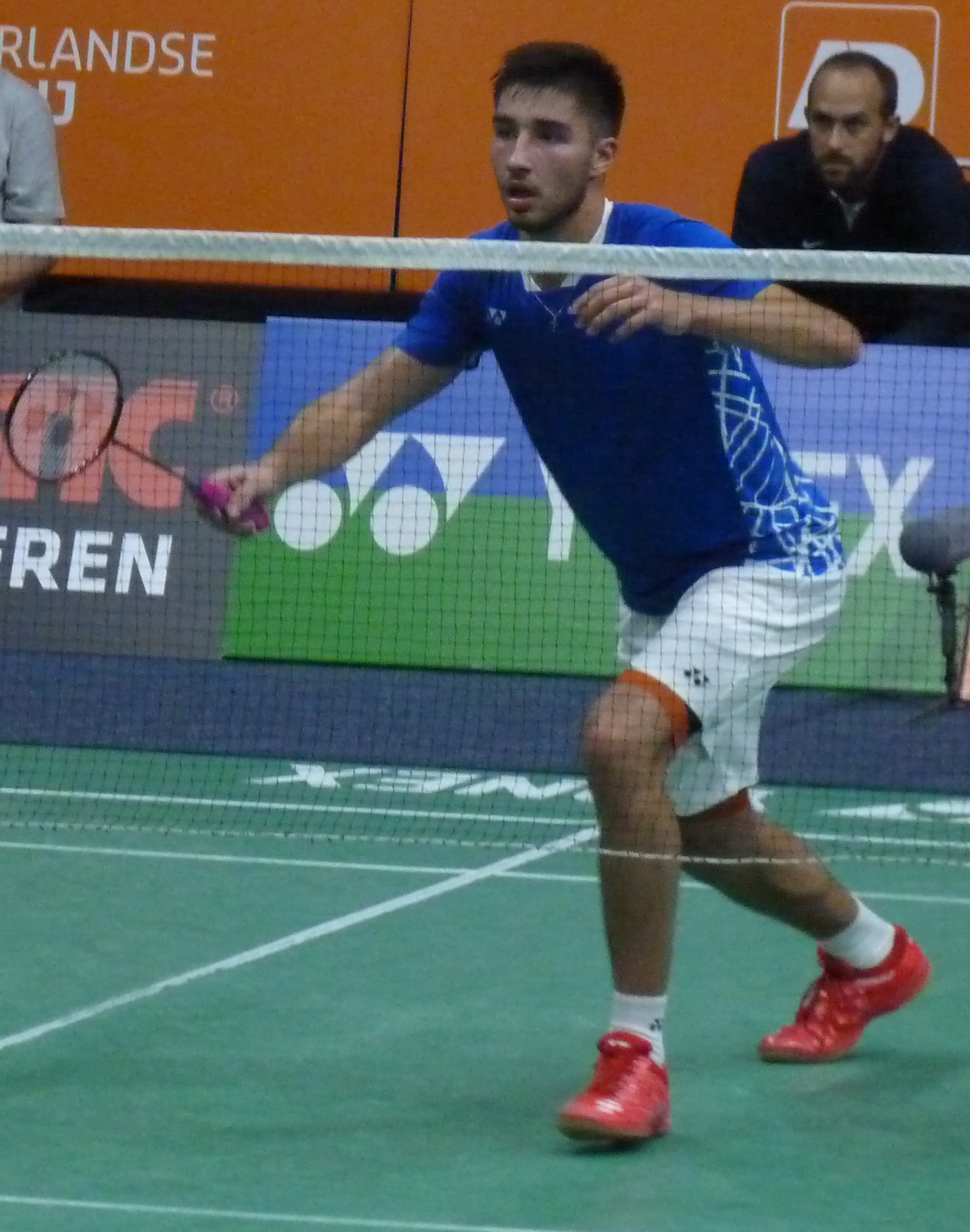 Toma Junior Popov (FRA)